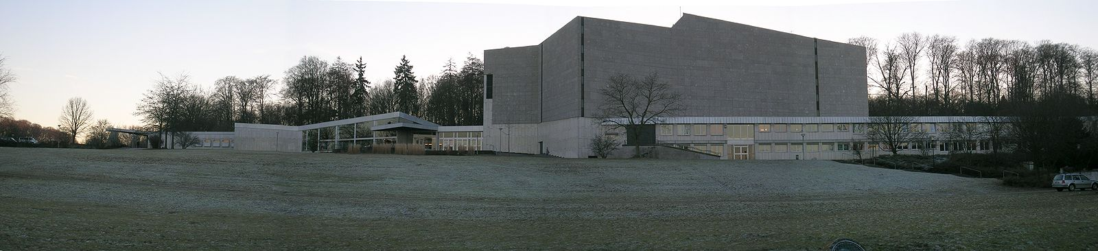 Wolfsburg, Germany: Theater (built 1970-1976 by Hans Scharoun), Panorama picture from four single images (maximal resolution ca. 6000x1400px)